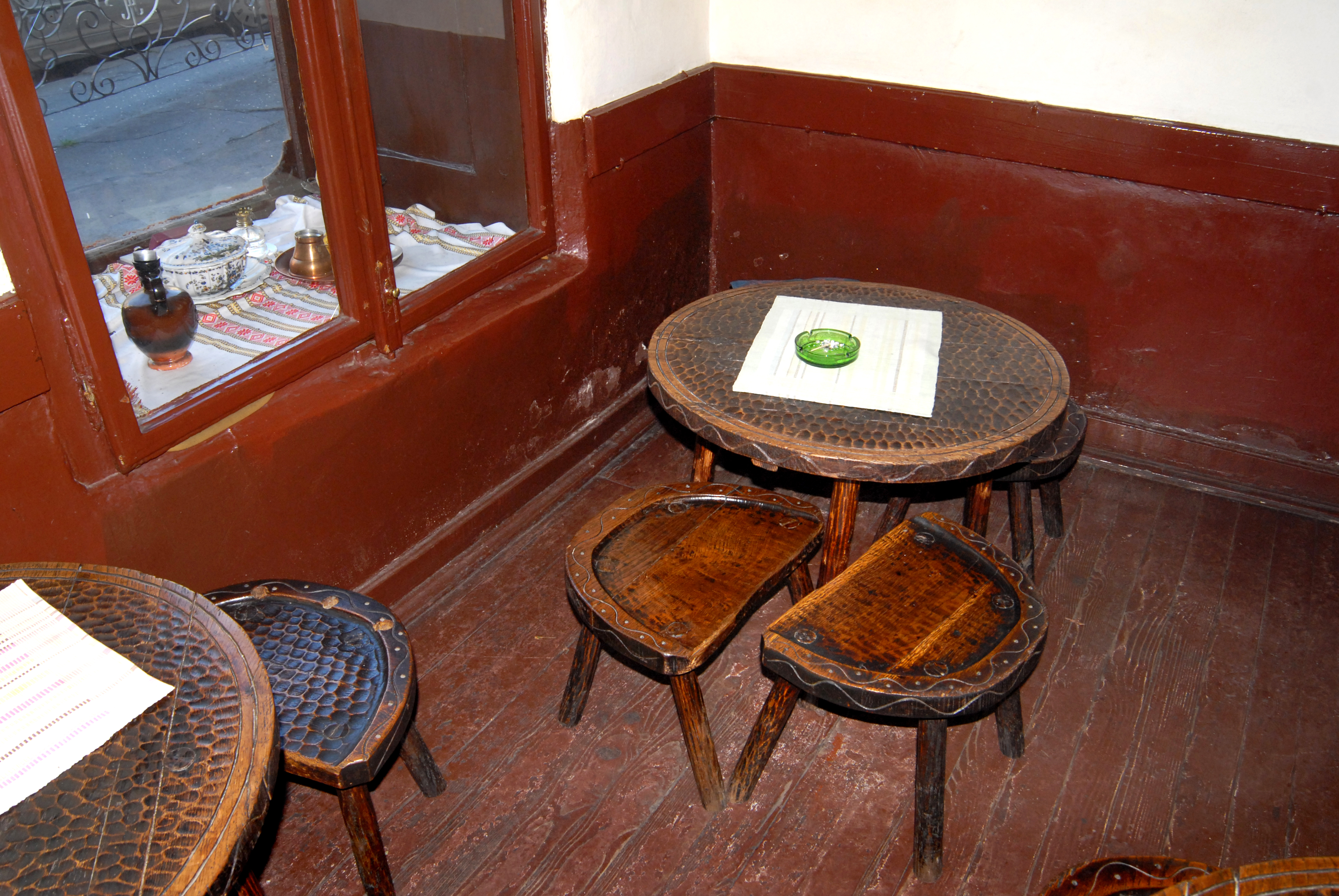 Znak pitanja tavern - enterior, Belgrade